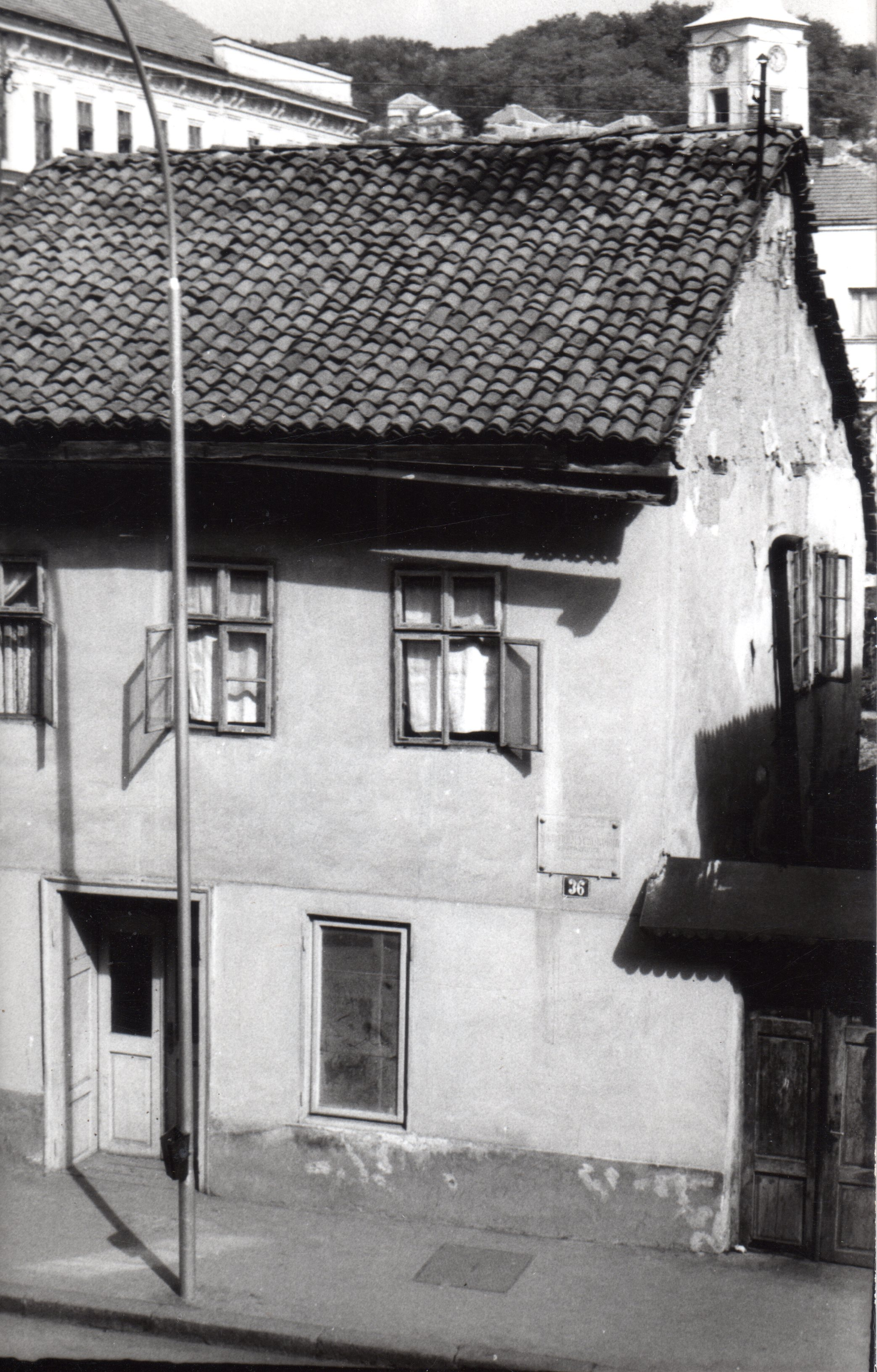 Birthplace Milutin Uskokovic in Uzice from 1966.